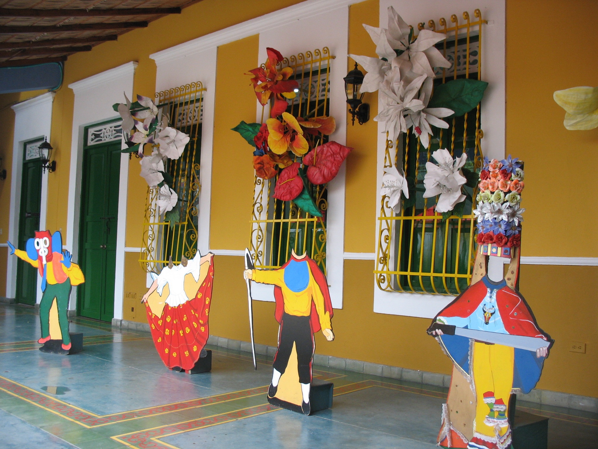 Barranquilla Carnival House interior.